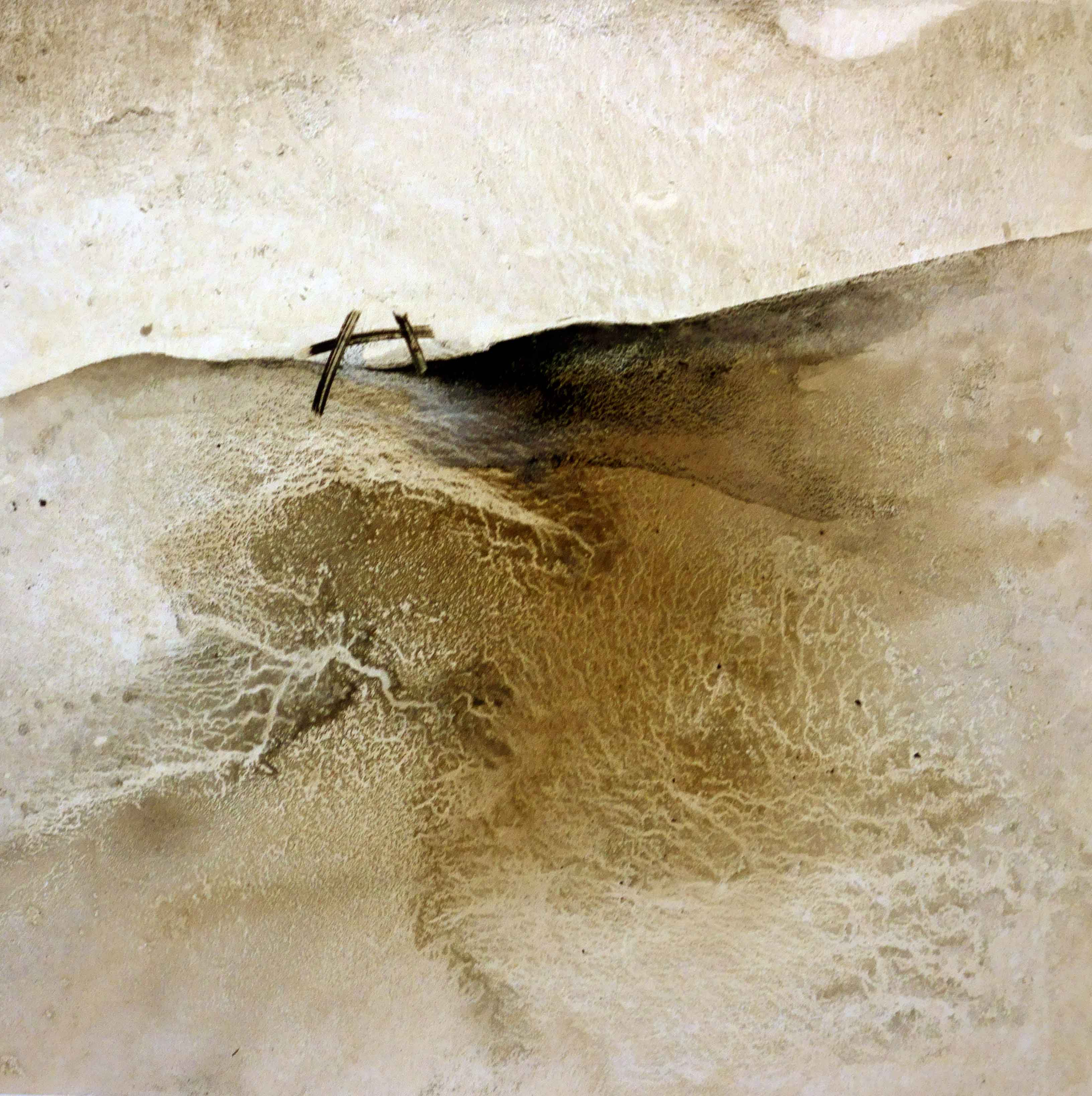 Mixed media painting